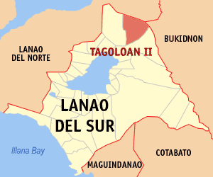 Map of the Lanao del Sur showing the location of Tagoloan II